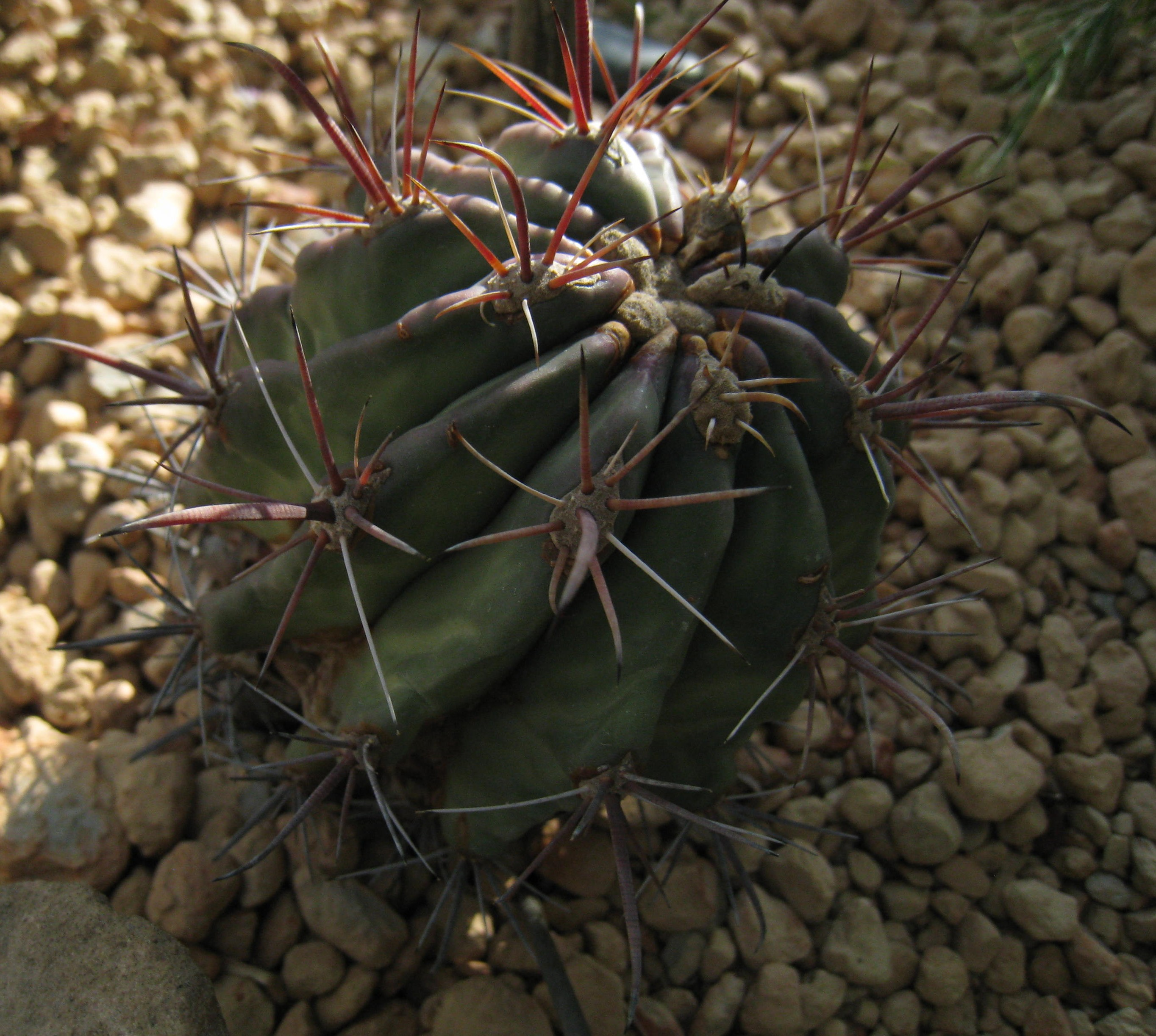 this plant was labeled as "Fishhook Cactus, Ferocactus emoryi" at the Brooklyn Botanic Garden.